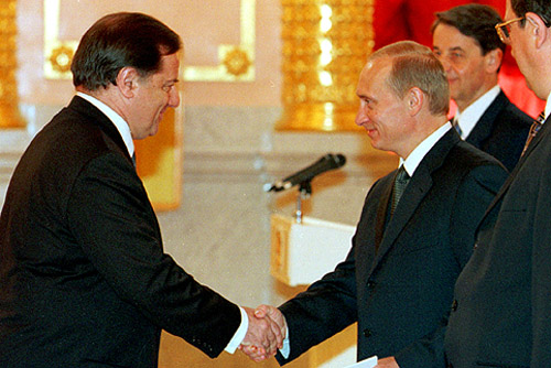 THE GRAND KREMLIN PALACE, MOSCOW. French Ambassador to Russia Claude Blanchemaison presenting his credentials.